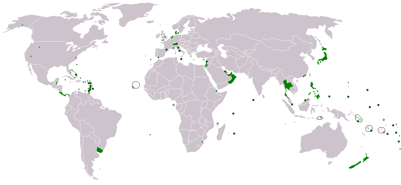 for the List of offshore financial centres